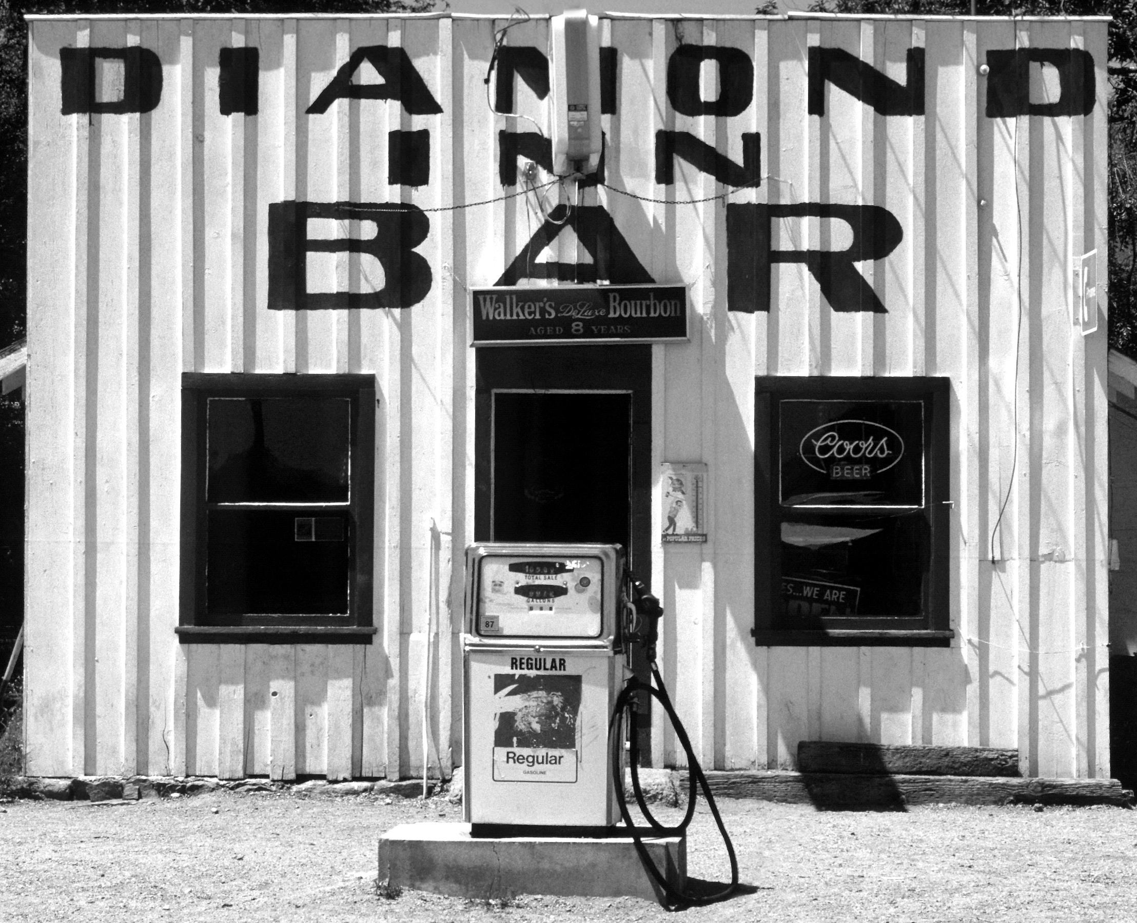 OK, it's NOT in Oregon...